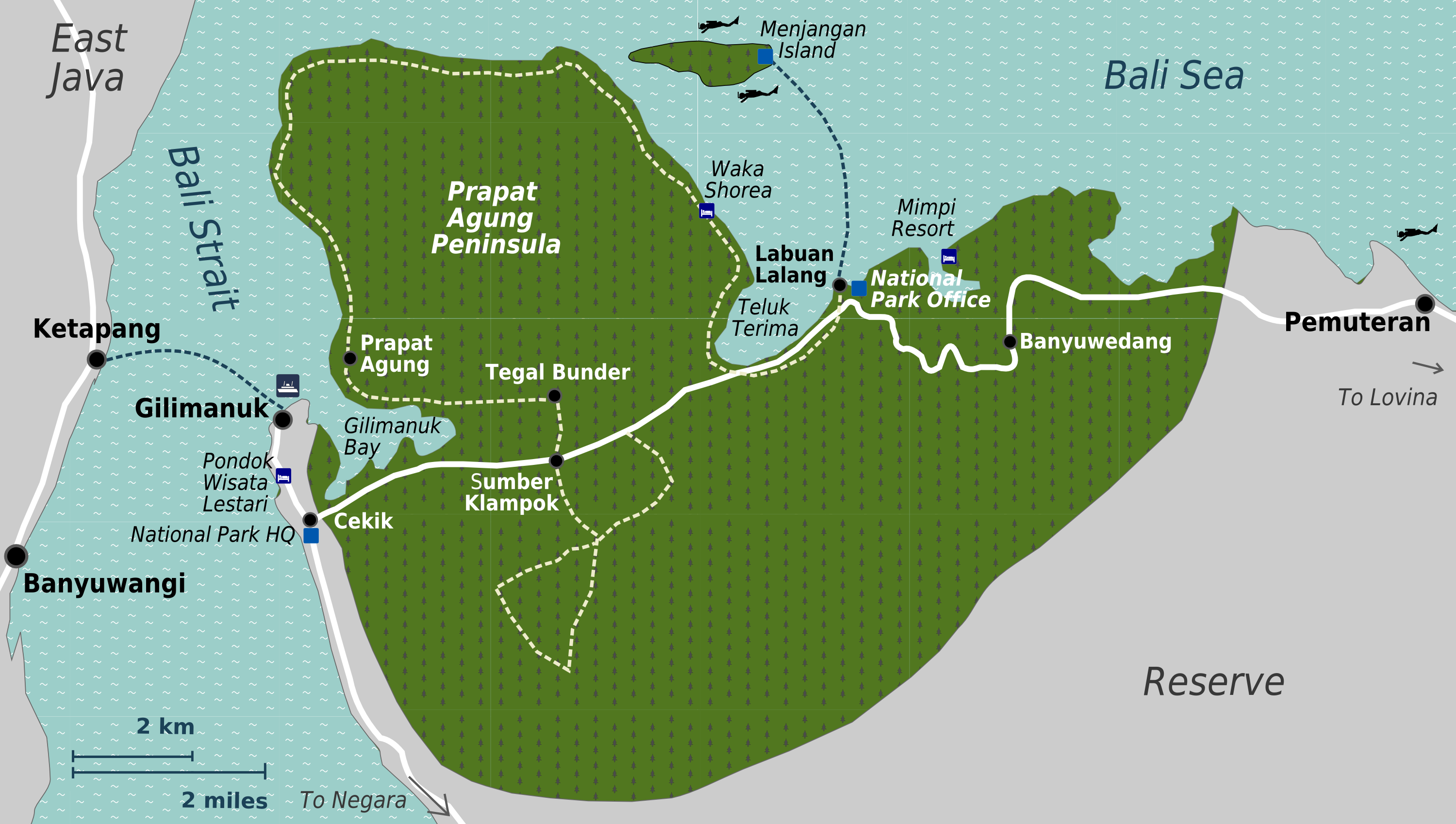 Map of West Bali National Park, Bali, Indonesia